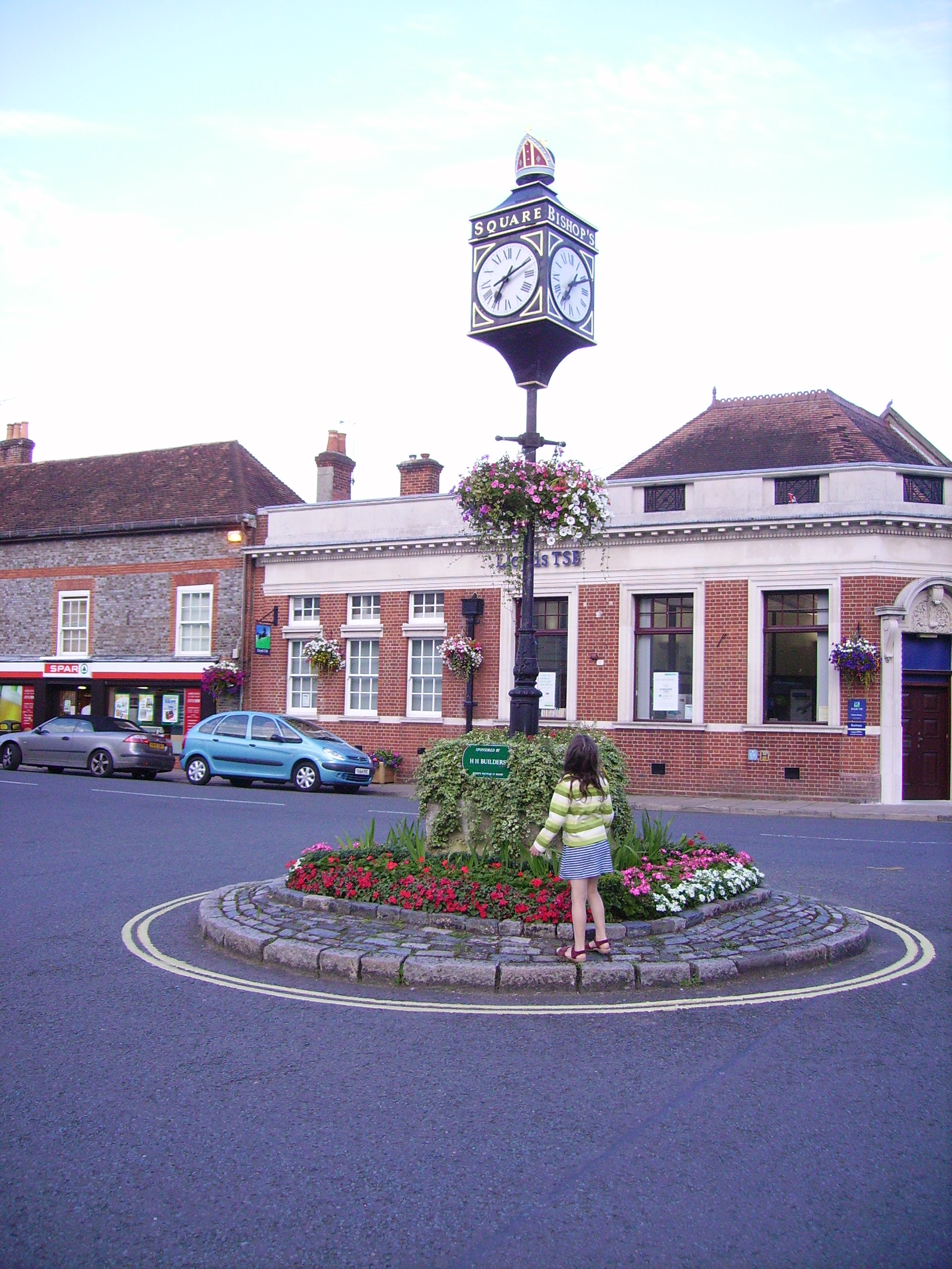 Bishop's Waltham, Hampshire, United Kingdom